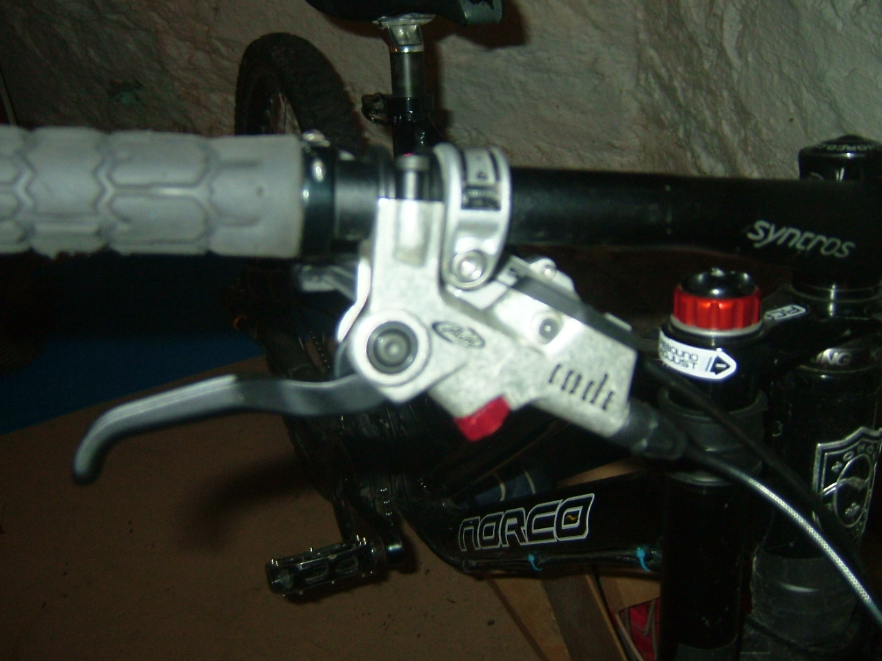 Avid Code 2008 Lever